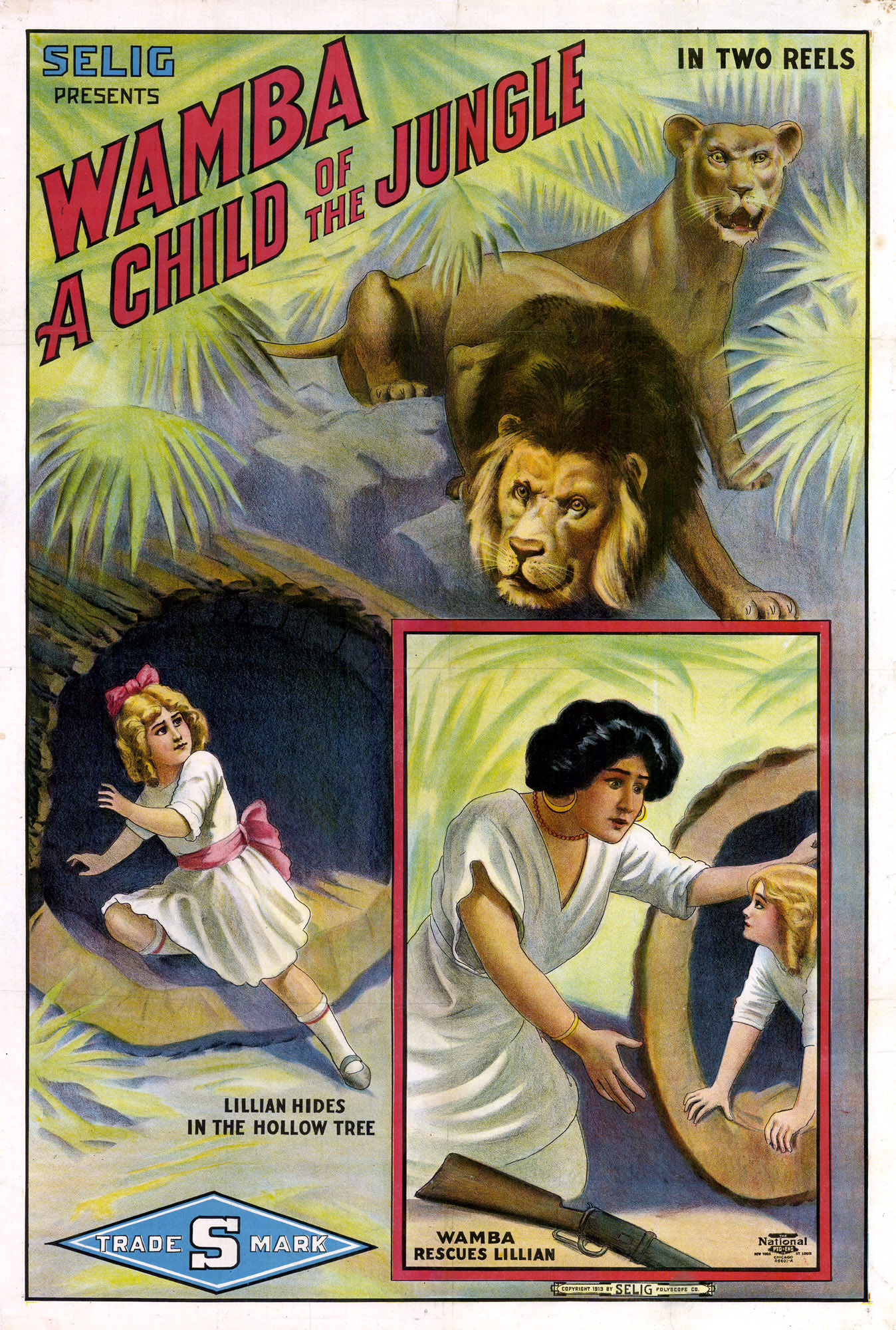 Title: Wamba, a Child of the Jungle Dimensions: 28 x 41 in. Caption: William Selig was a Hollywood pioneer. In 1909, he established the first movie studio in Los Angeles. As this poster makes evident, Selig used exotic animals in numerous jungle-themed movies. His thirty-two-acre Selig Zoo, in Lincoln Park, opened to the public in 1915.